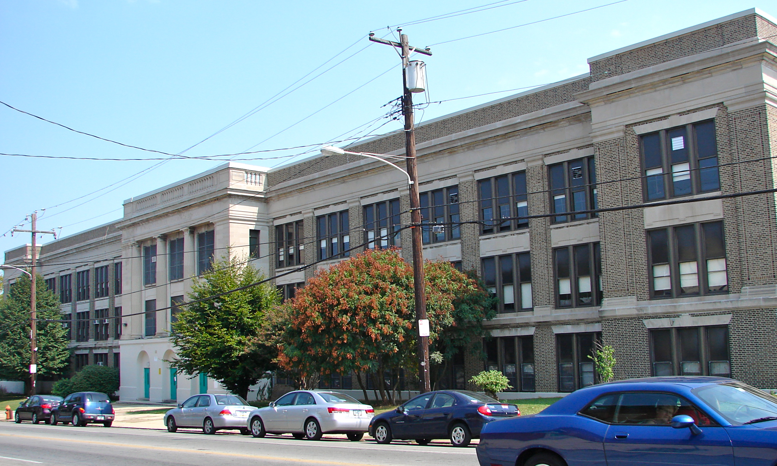 Mayer Sulzberger Junior High School in Philadelphia on the NRHP since November 18, 1988. At 4725 Fairmount Avenue in the Mill Creek neighborhood of West Philly. The building is shared by the Parkway West High School and Middle Years Alternative School for the Humanities.